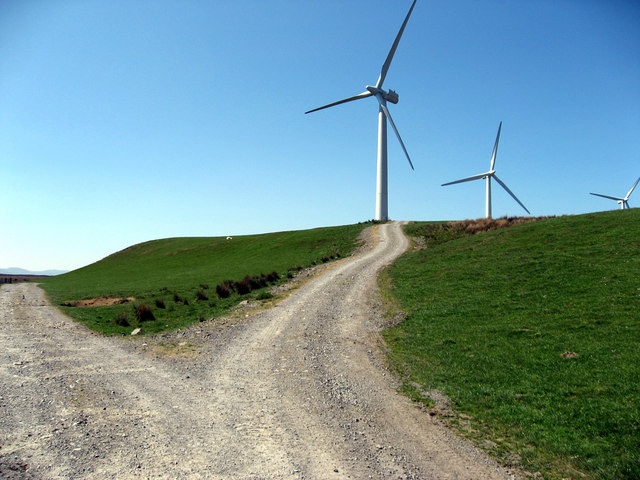 Trac at y Twrbein. Track towards the wind turbine.